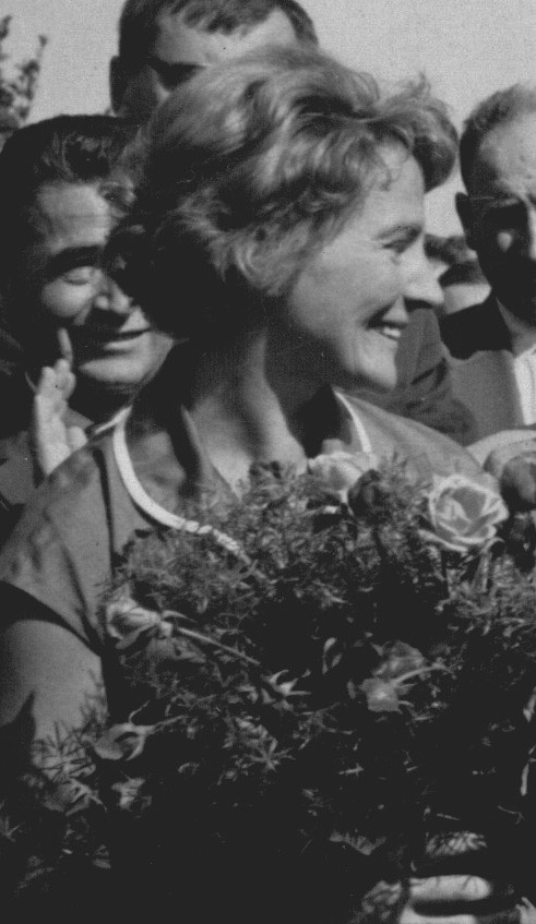 Jaroslava Lukešová (1920-2007) - academic sculptor (photograph of 1962)